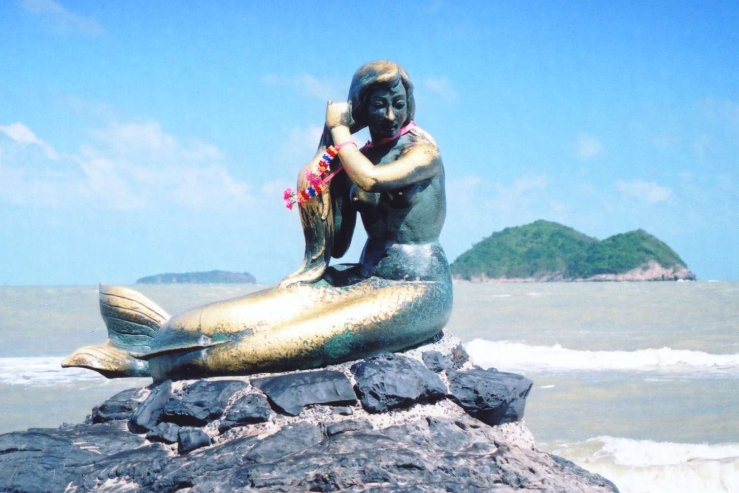 Mermaid statue at the Laem Samila beach, Songkhla, Thailand. Statue created in 1966 by Jitr Buabus, director of the Art & Craft College, Bangkok. Mermaid comes from the story Phra Apaimanee by Sonthorn Phu. Photo taken by User:Ahoerstemeier on January 23 2005.